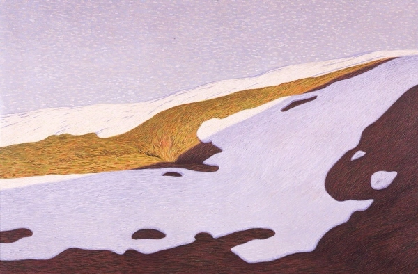 Snowmelt (painting by Hans Emmenegger, 1908/1909)